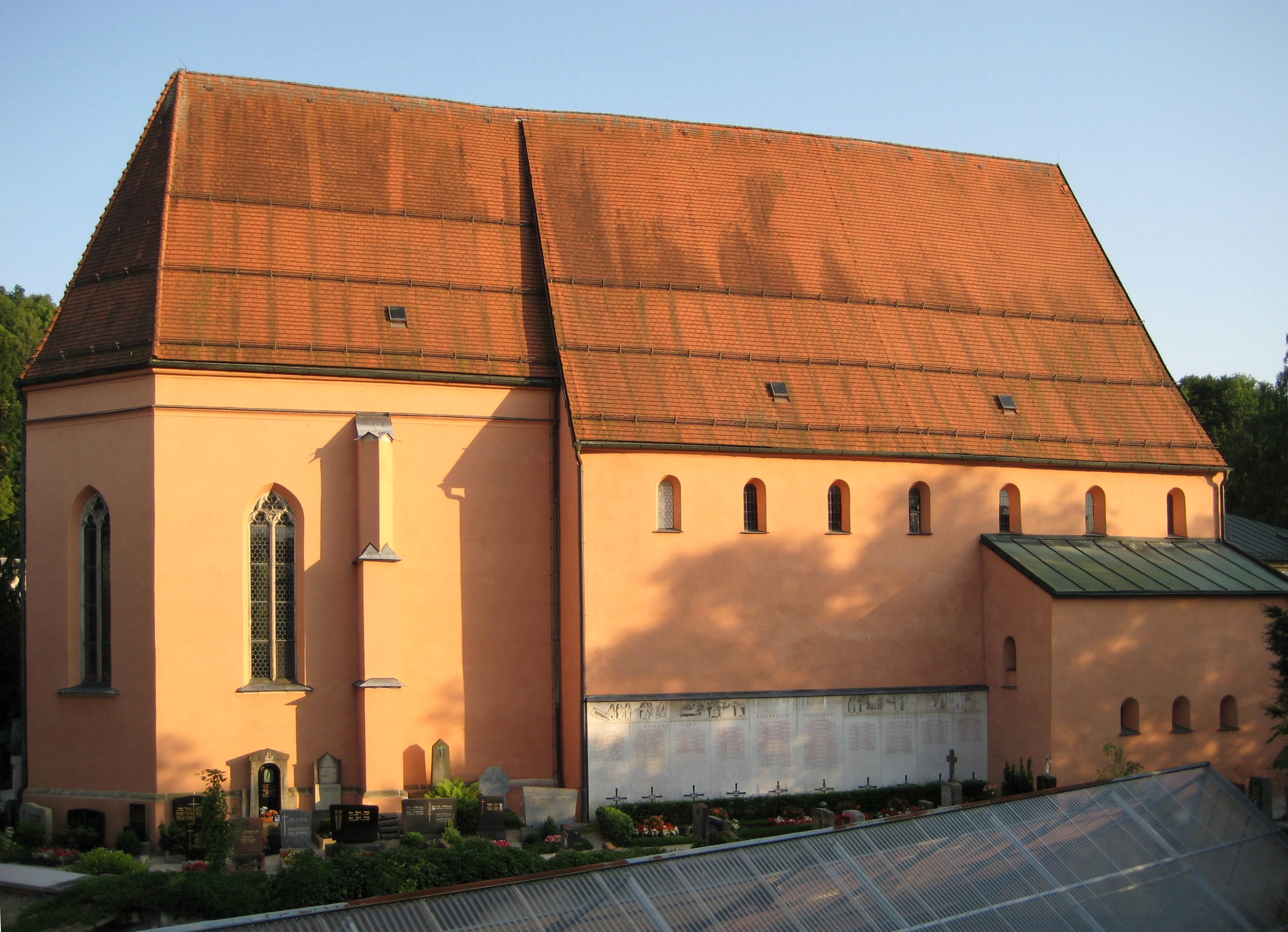 St. Severin, Passau